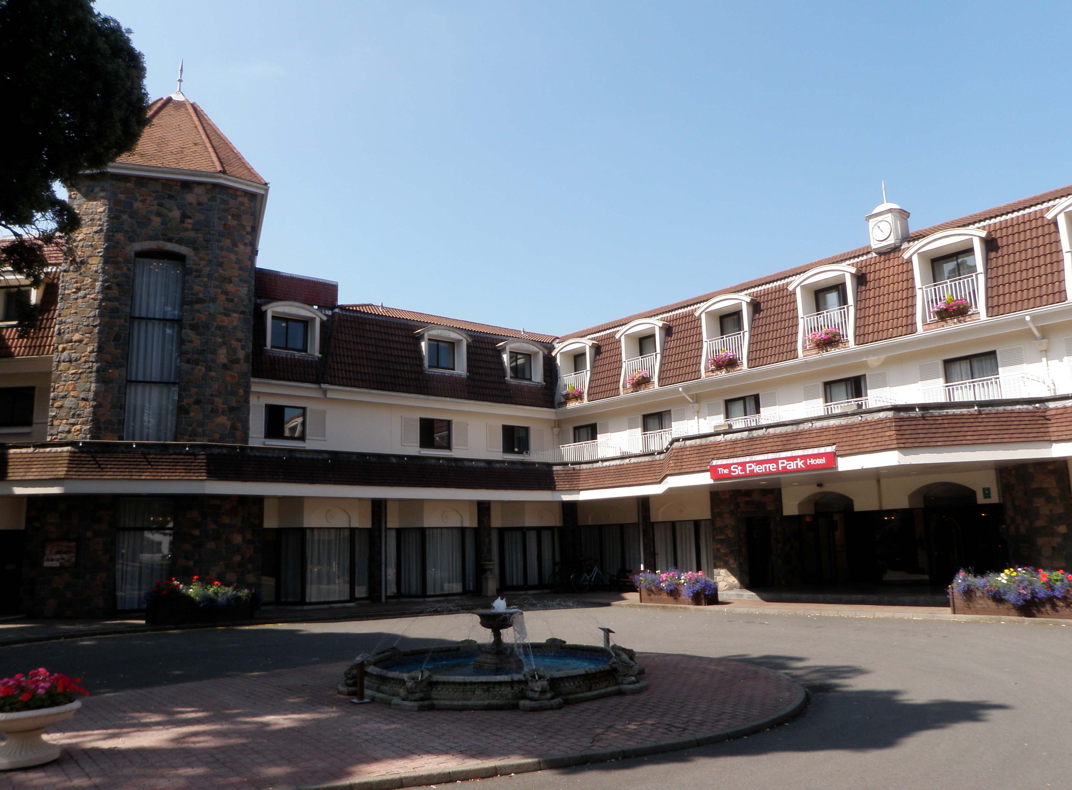 Entrance area of the St. Pierre Park Hotel in Saint Peter Port, Guernsey.